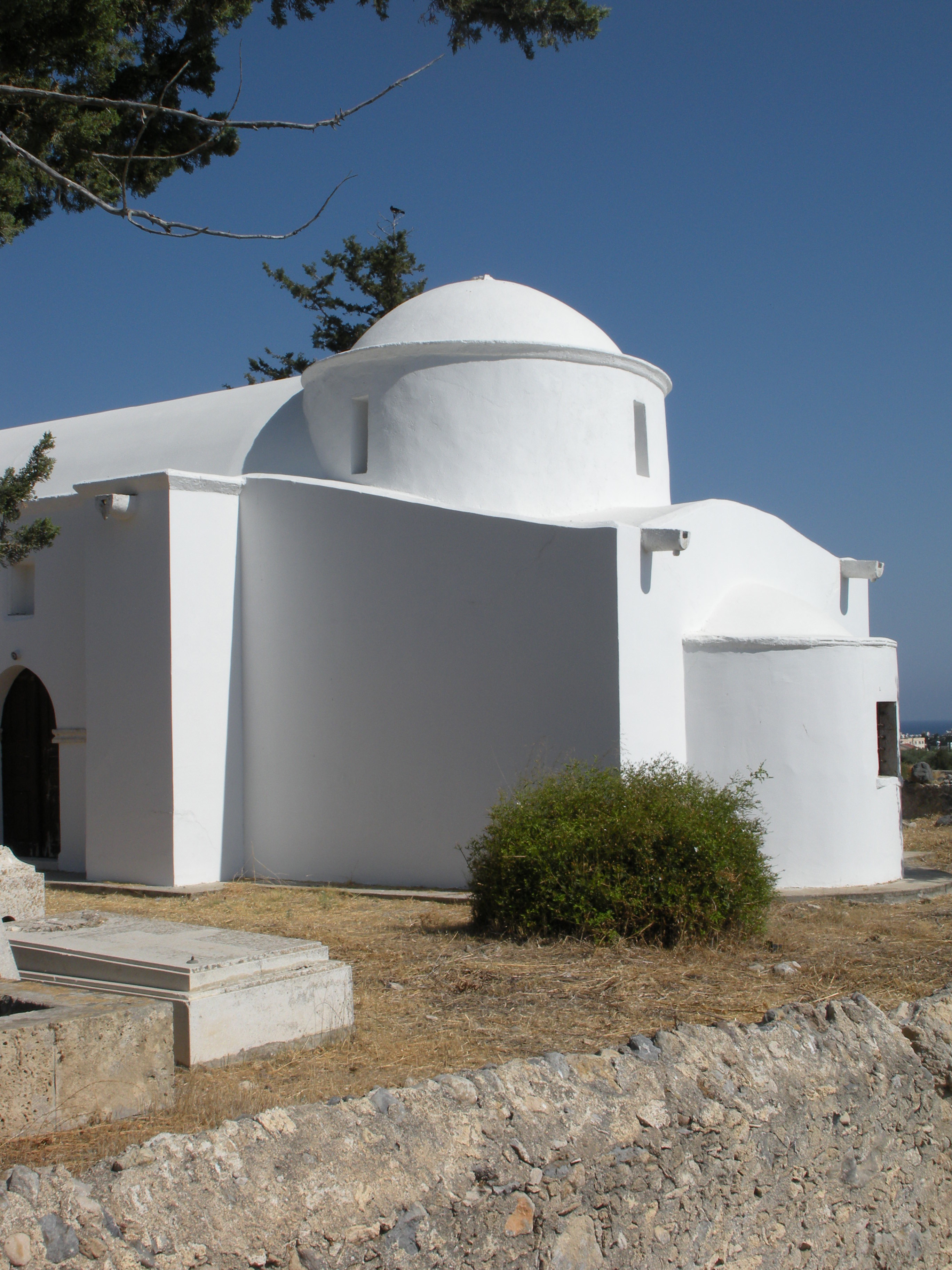 Church of the Blessed Virgin Mary at Thermεia (Θέρμεια) or Doğanköy, Cyprus, from the south east.